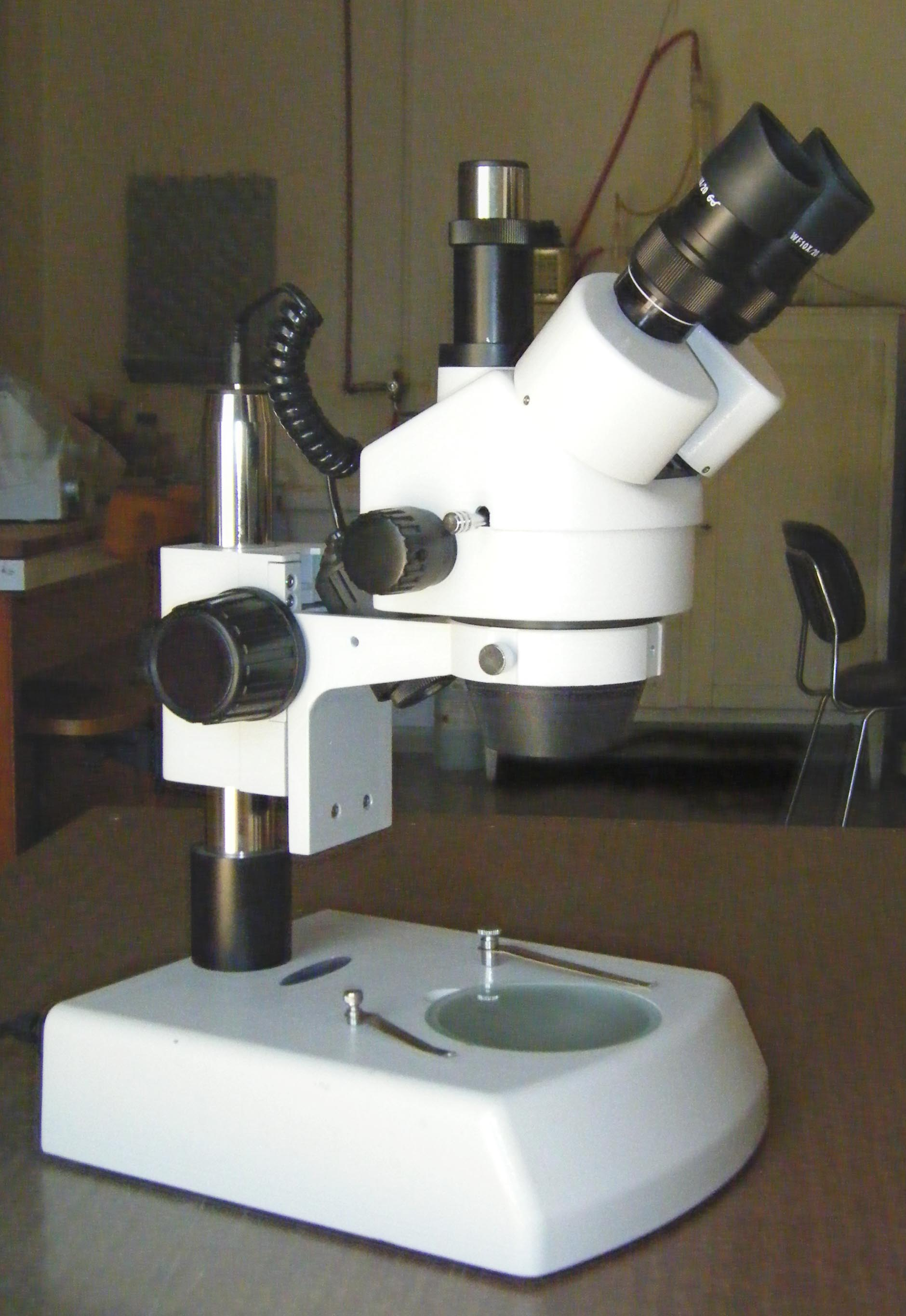 Stereo microscope